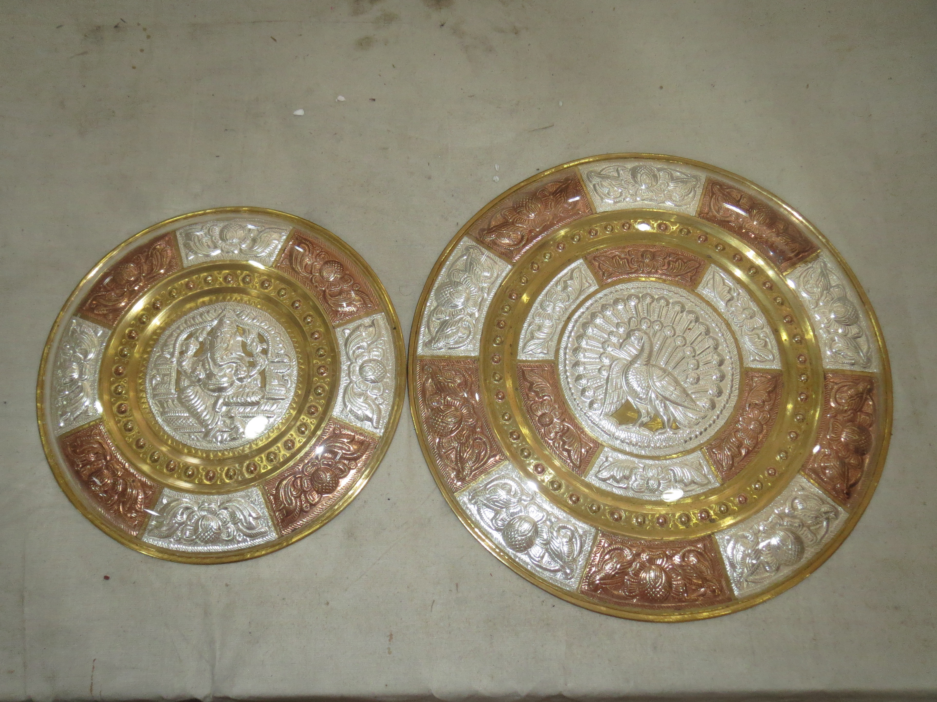 Tanjore art plates with Vinayaga and peacock images at the centre